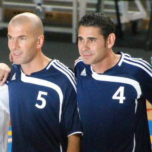 Zidane and Fernando Hierro playing futsal in 2008.